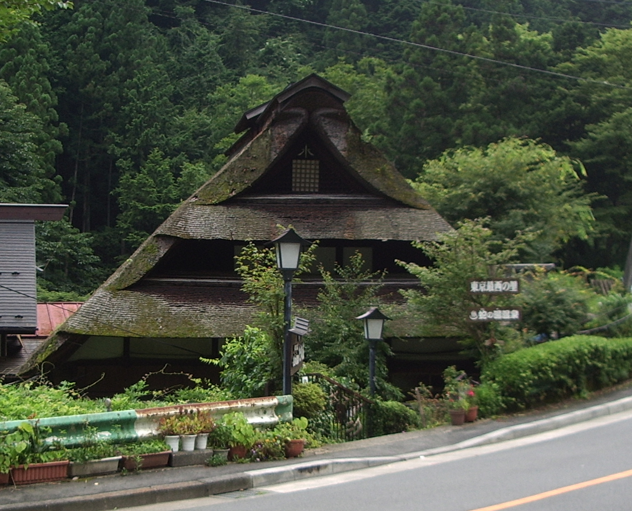 Kabutozukuri style traditional house, Hinoharamura, Tokyo